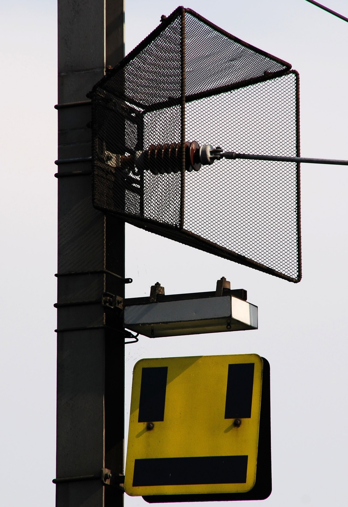 phase separation section in Basel